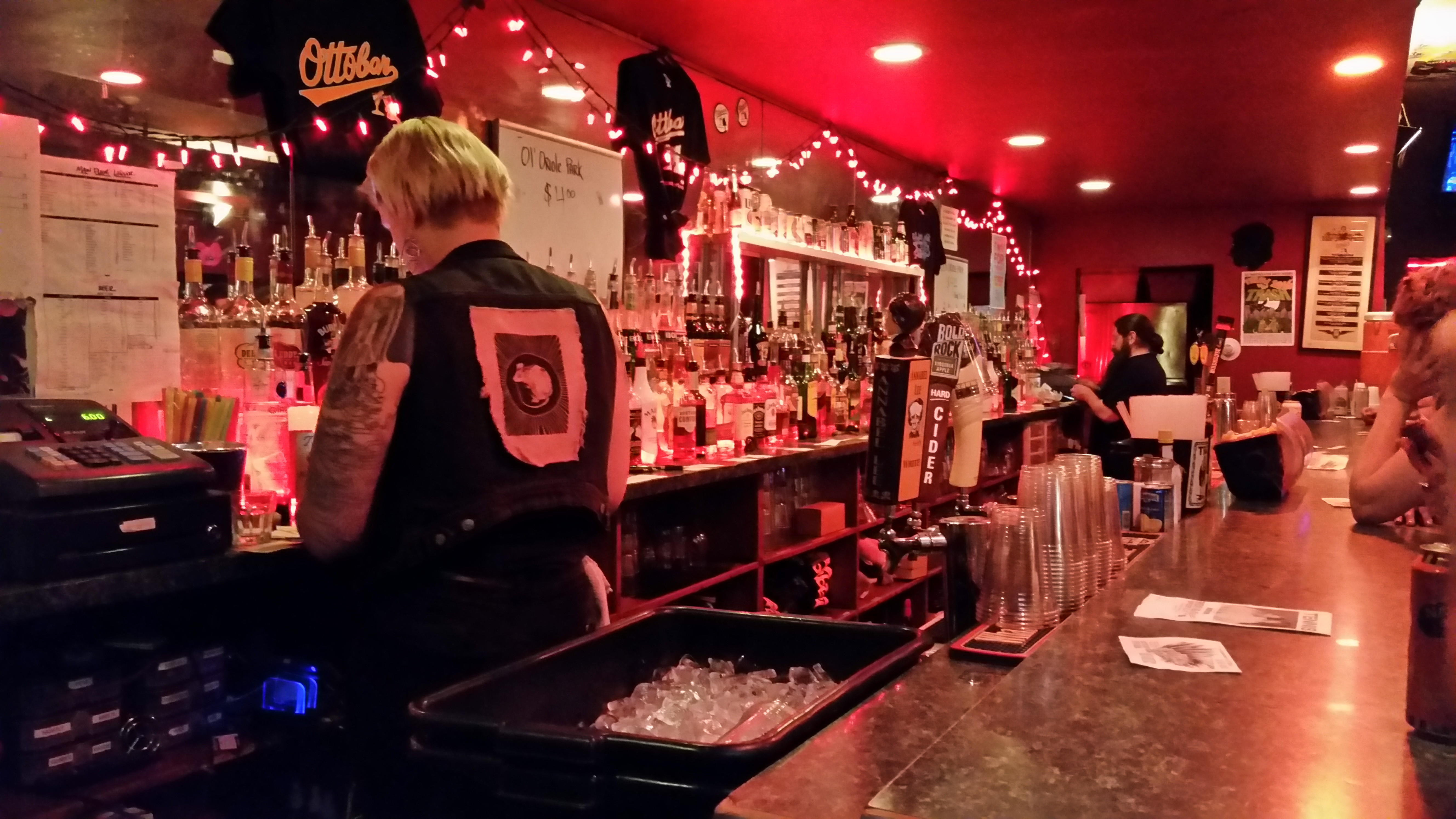 Bar at the Ottobar, Charles Village, Baltimore, MD 06082017 LHCollins